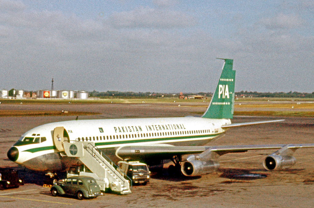 Boeing 720-040B AP-AMG of Pakistan International at London Heathrow in 1962